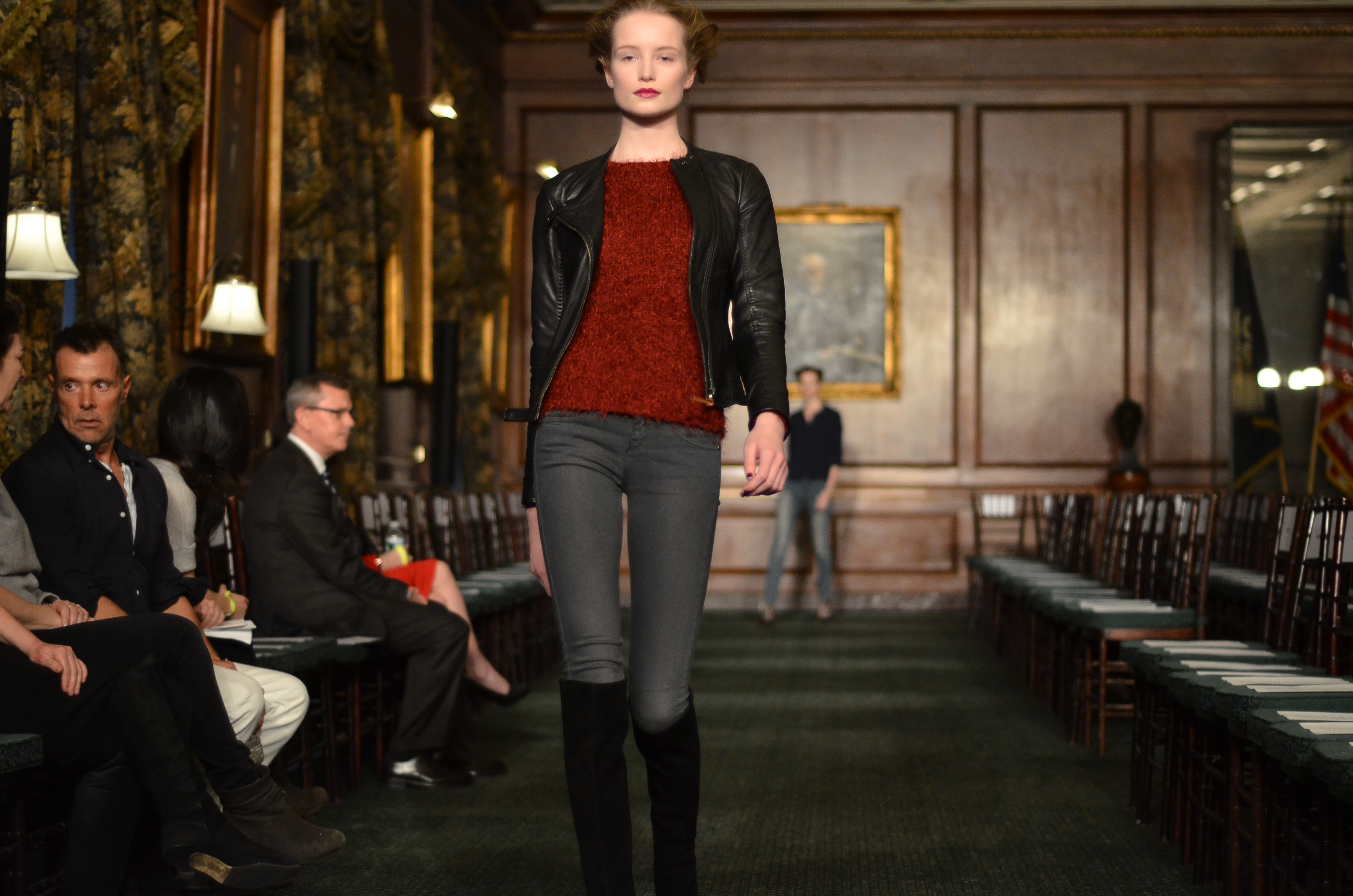 Model Maud Welzen in her own clothes, except for the boots which are Bill Blass. It's important for the models to rehearse with the actual shoes they will be wearing.